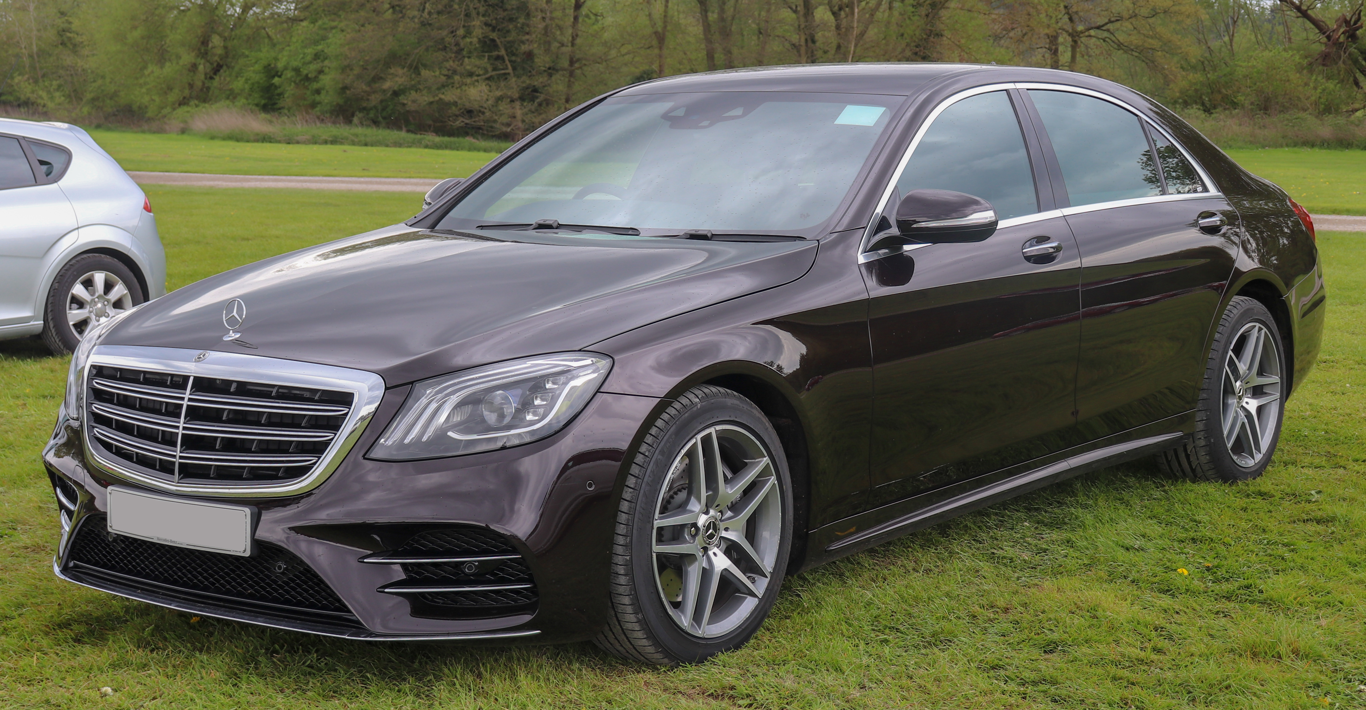 2019 Mercedes-Benz S350d L AMG Line Executive 3.0 Front Taken in NAEC Stoneleigh, Warwickshire